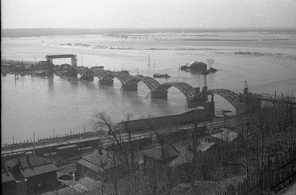 Construction of bridge over Klyazma in Vladimir, 1959